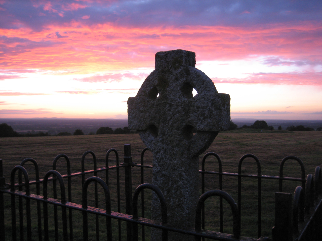 Commemorative cross erected during the 150th anniversary commemoration of the battle in 1948.